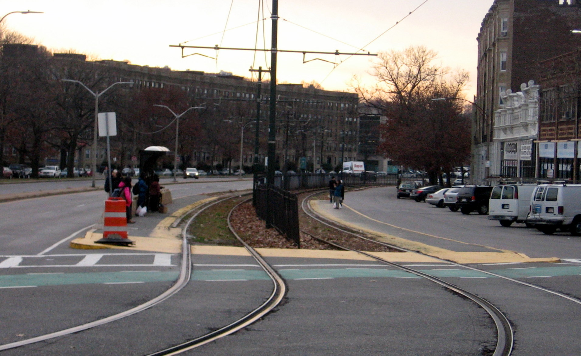 Packard's Corner station in November 2011